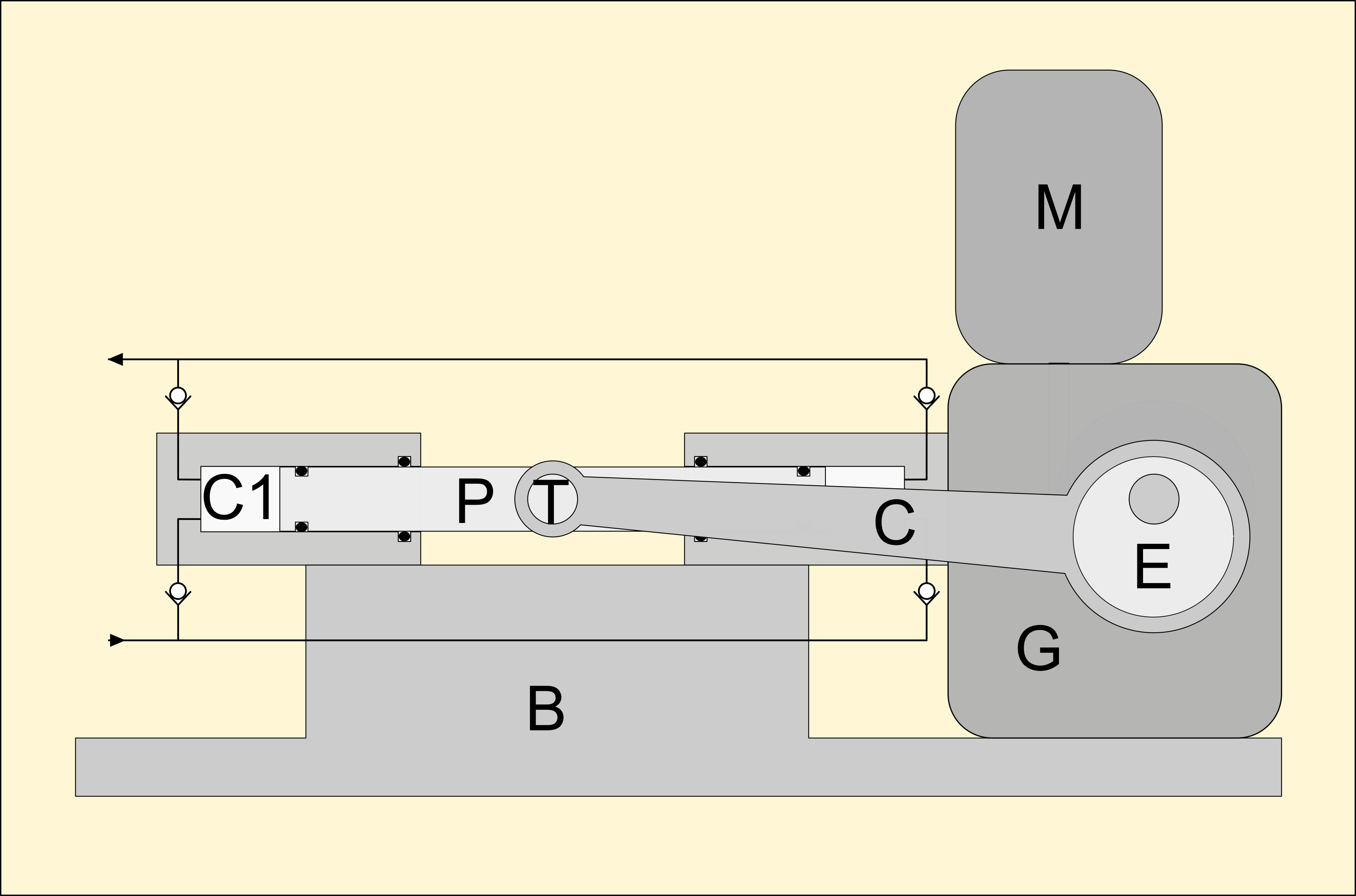 Schematic diagram of double action single stage gas booster with electric drive C1: cylinderP: pistonT: trunnionB: base frameC: connecting rodG: gearboxM: electric motorE: eccentric drive